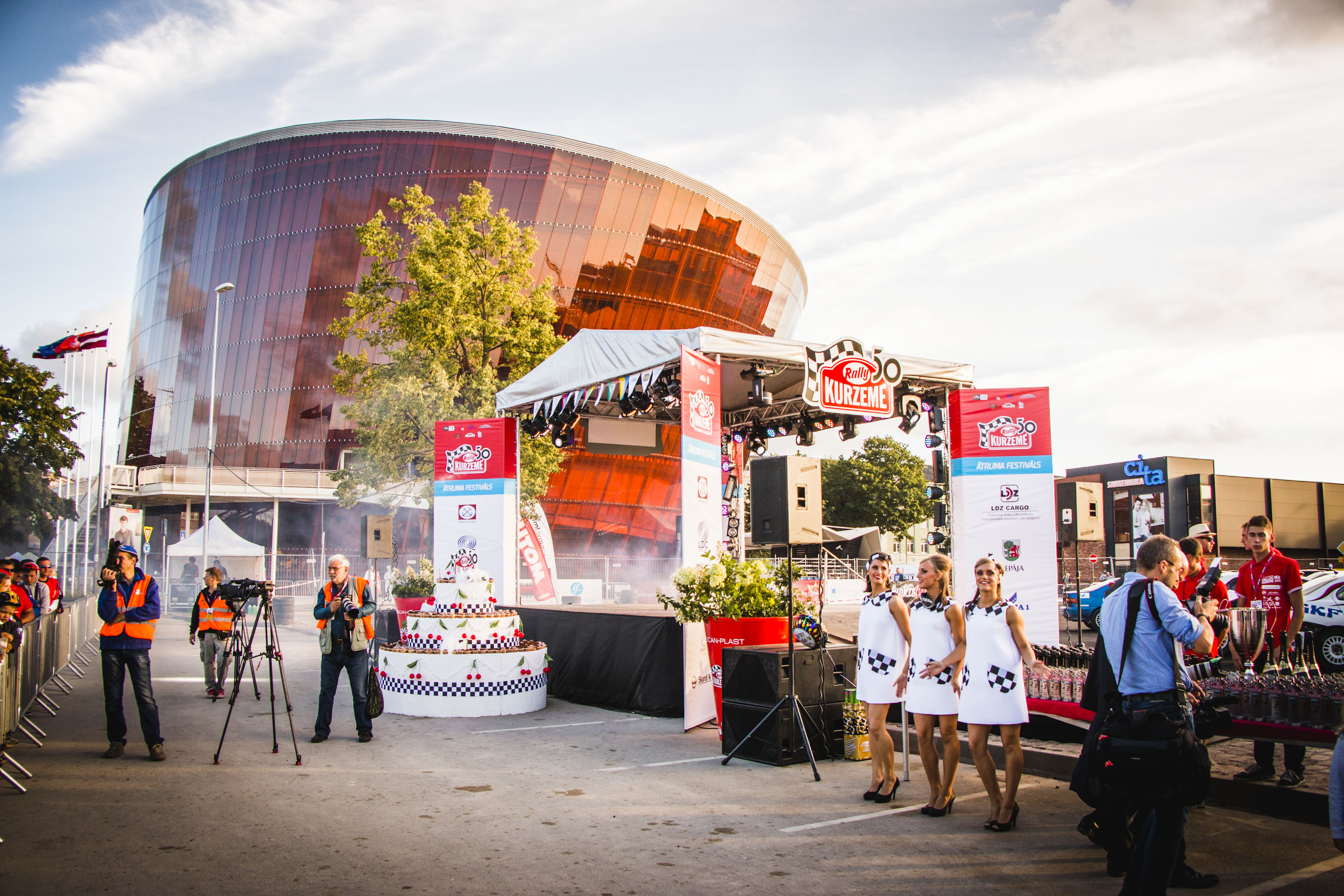 Rallija "Kurzeme" 50 gadu jubilejas svinību apbalvošanas ceremonija